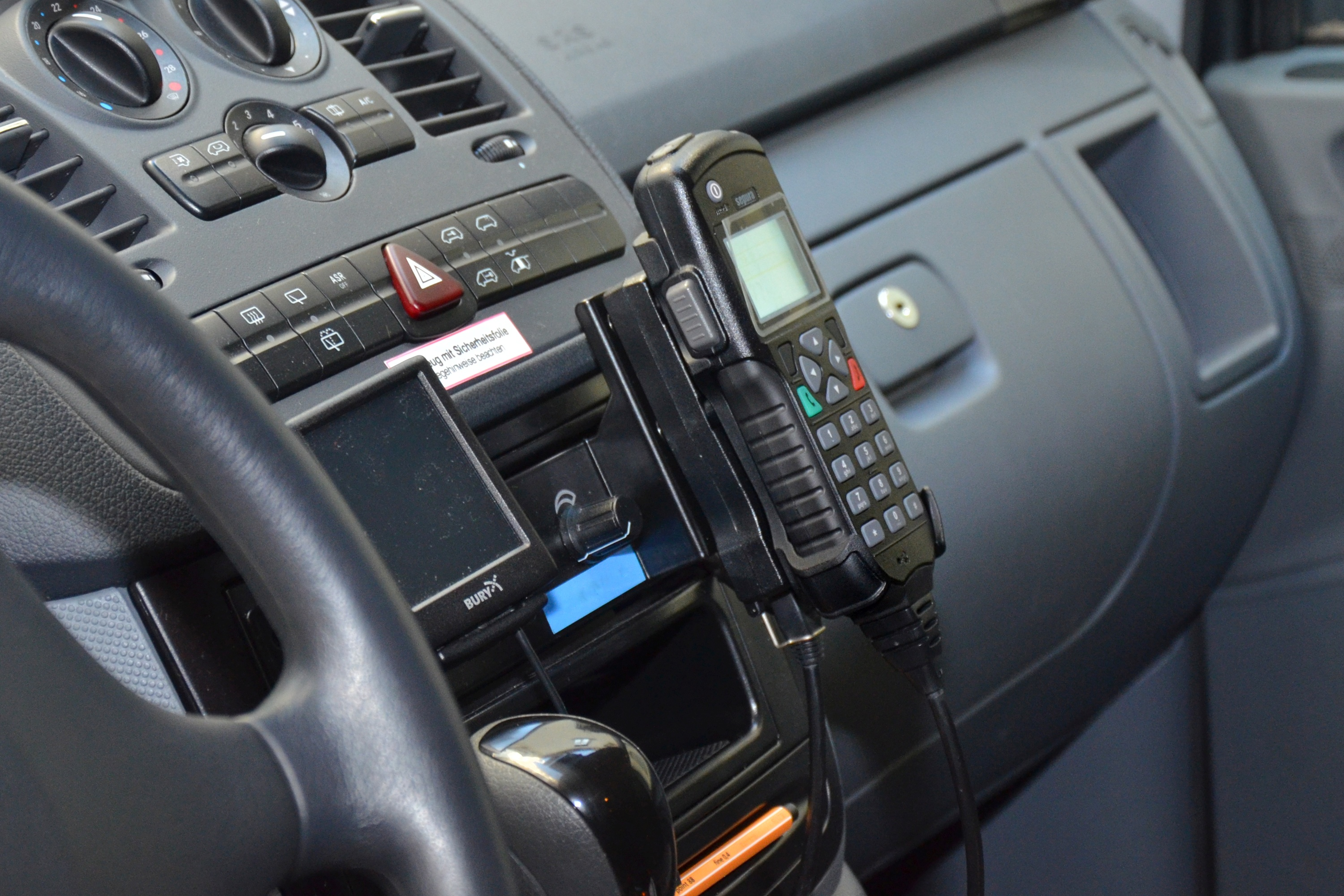 TETRA hand based console at the dashboard of German police car